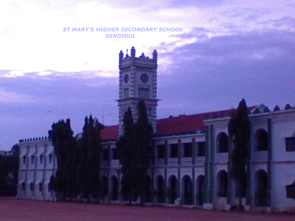 It was founded in eaerly 1850 by Jesuit People to educate poor people in Tamilnadu